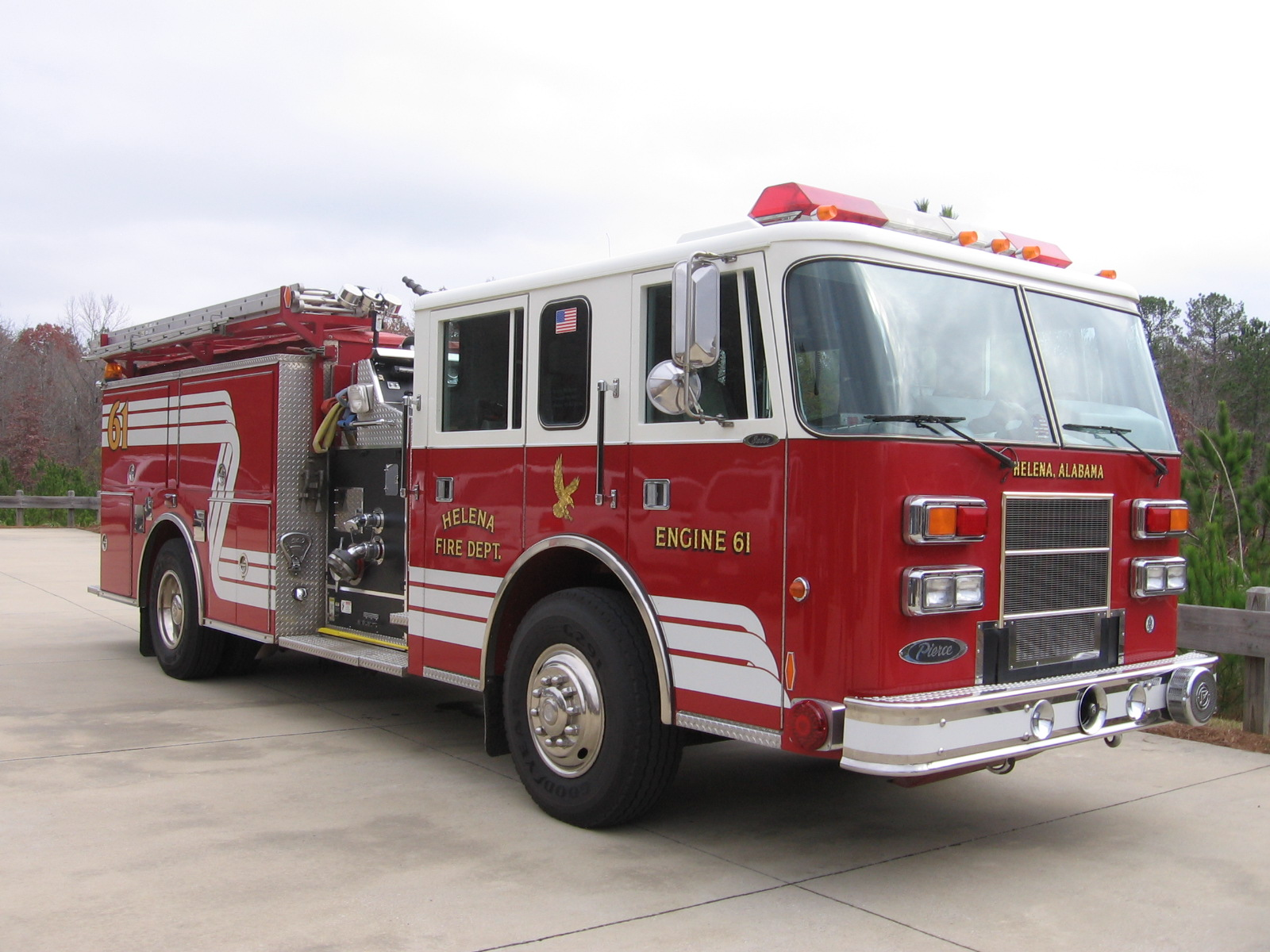 Helena, Alabama Fire Department Engine 61, manufactured by Pierce.